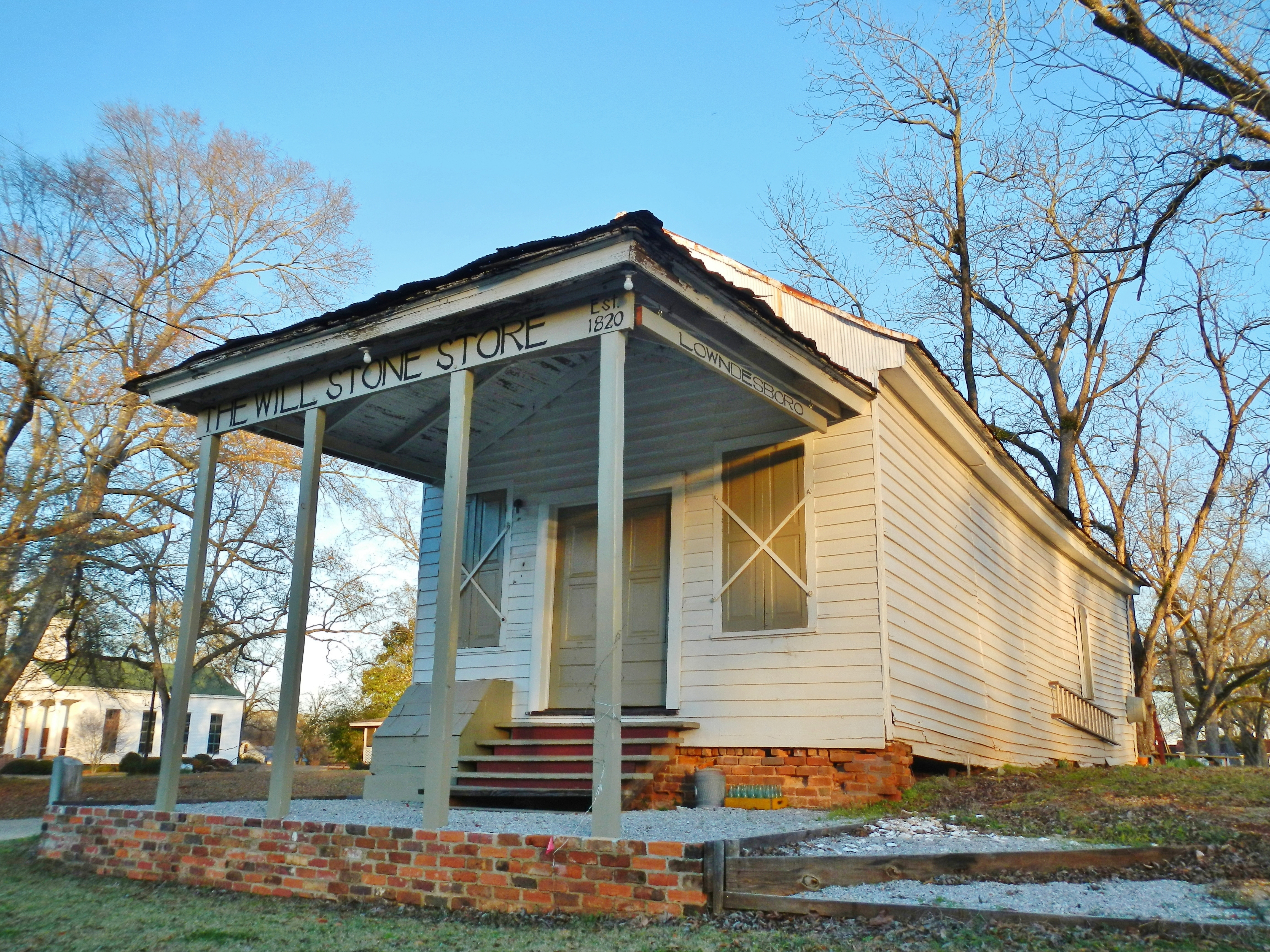 The Will Stone Store — in Lowndesboro, Alabama. Historic district contributing property to the Lowndesboro Historic District.